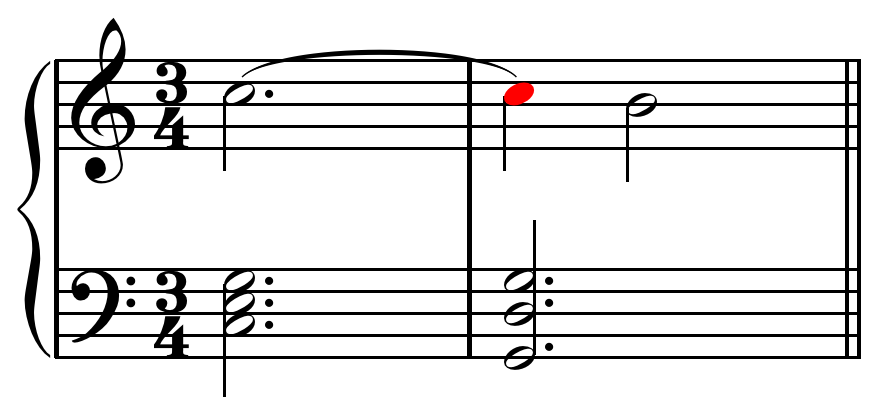 Suspension example 1